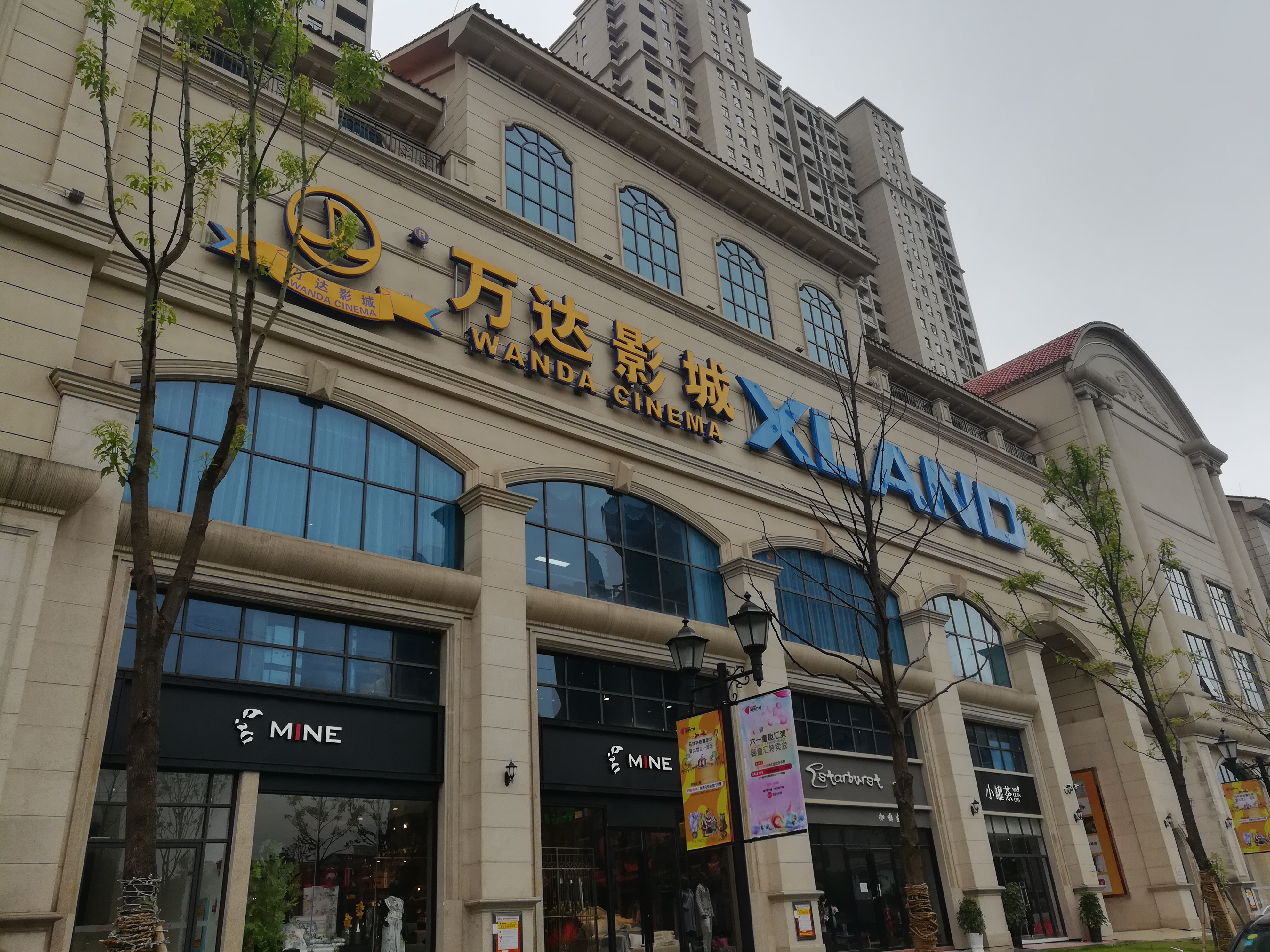 Building of Wanda Cinema in Loudi, Hunan, China.